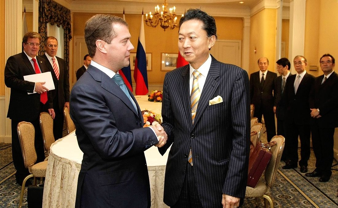 September 23, 2009 NEW YORK. Russian President Dmitry Medvedev with Prime Minister of Japan Yukio Hatoyama.